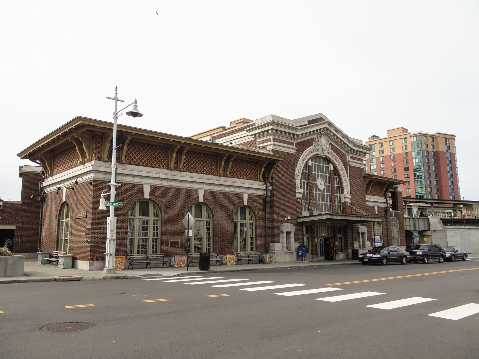 Image by Dennis Fraevich, requiring further identification/categorization.